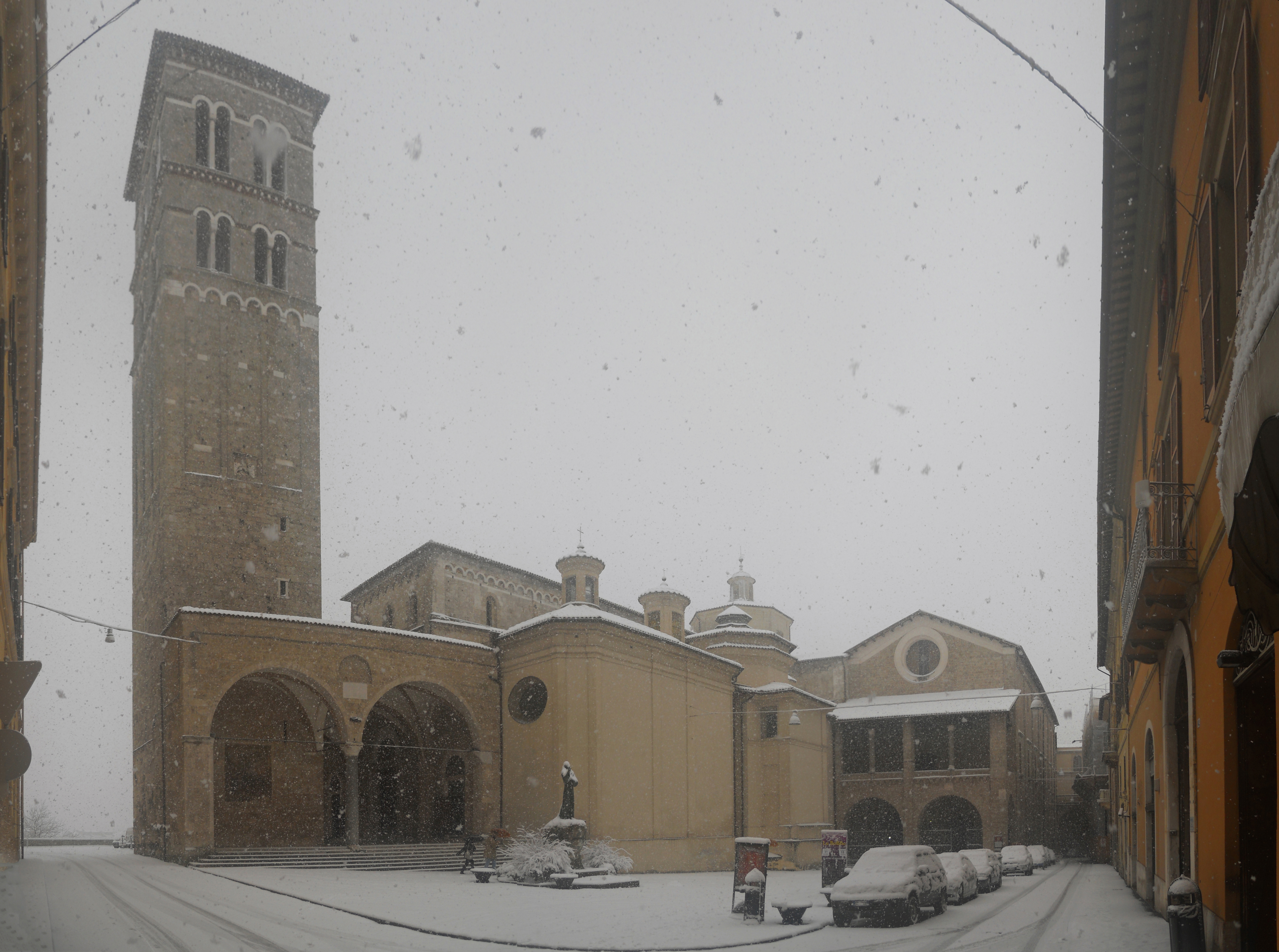 Panoramic picture with St. Mary Cathedral, papal palace and Boniface VIII's arch during 3rd february 2012 snowfall - Rieti, Italy